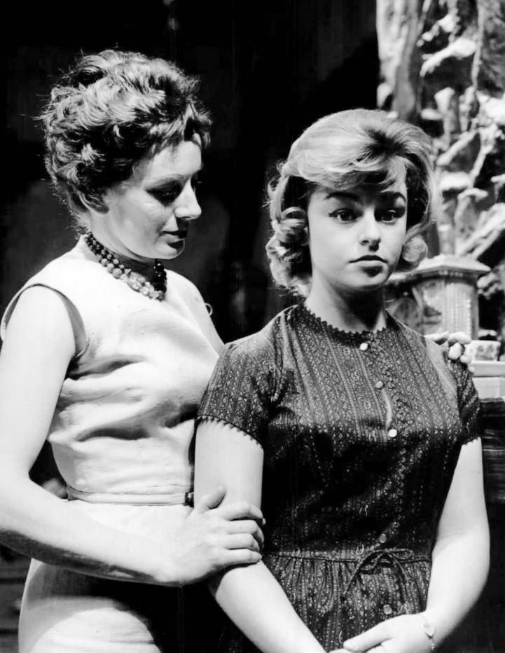 Photo of Chase Crosley (as Faye Bannister, left) and Patty McCormack (as Lisha Steele) from the television version of the daytime drama Young Doctor Malone.